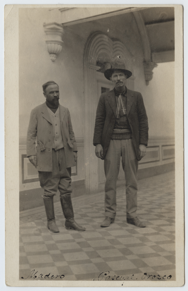 Title: Madero [and] Pascual Orozco. Creator: Unknown Date: ca. 1910-1913 Part Of: American border troops and the Mexican Revolution Place: Parral, Chihuahua, Mexico Physical Description: 1 photographic print (postcard): gelatin silver; 9 x 14 cm File: ag1982_0015_126c_madero.jpg Rights: Please cite DeGolyer Library, Southern Methodist University when using this file. A high-resolution version of this file may be obtained for a fee. For details see the web page. For other information, . For more information and to view the image in high resolution, see: View the Mexico: Photographs, Manuscripts, and Imprints Collection